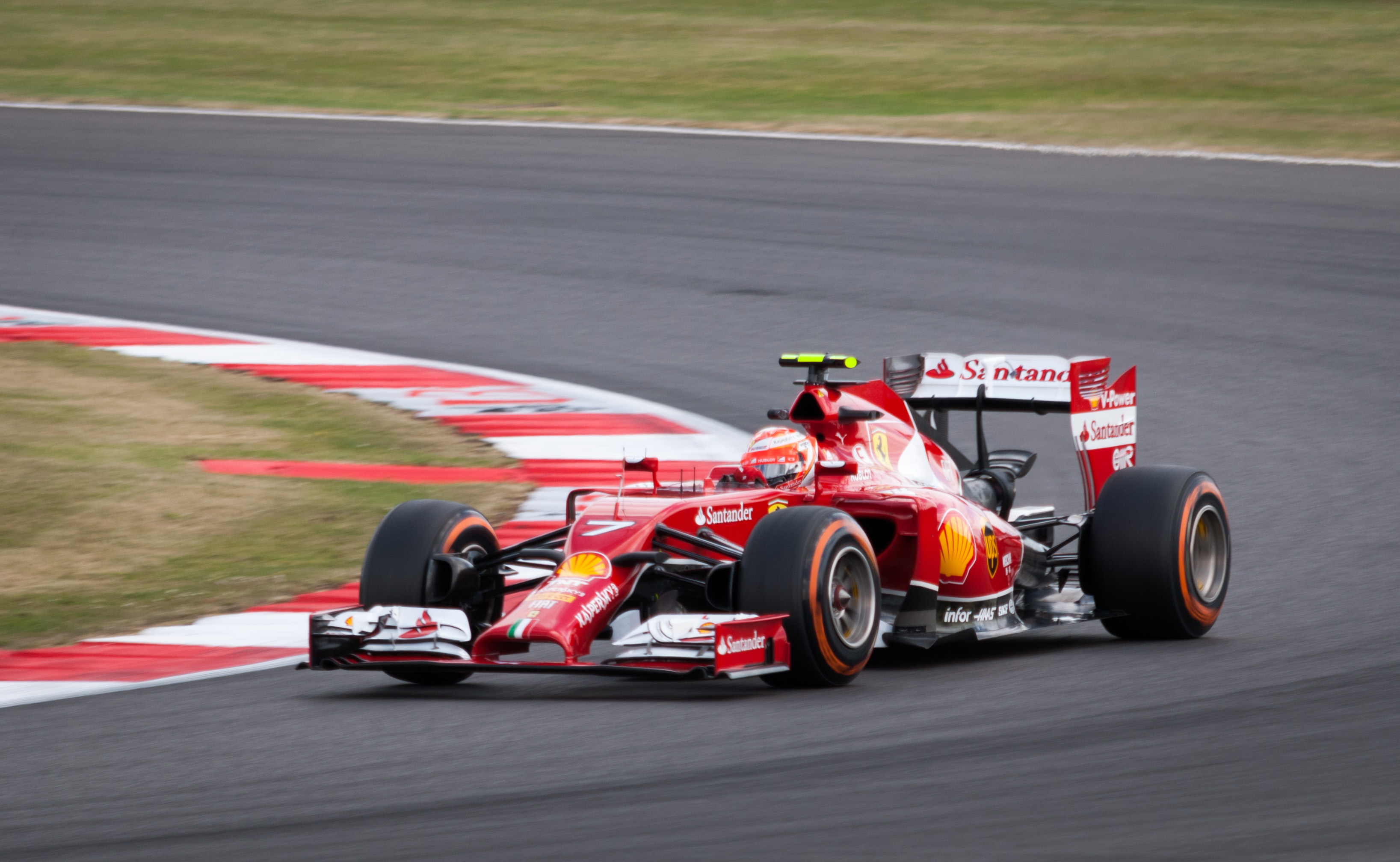 Kimi Räikkönen during Free Practice Two of the 2014 British Grand Prix.